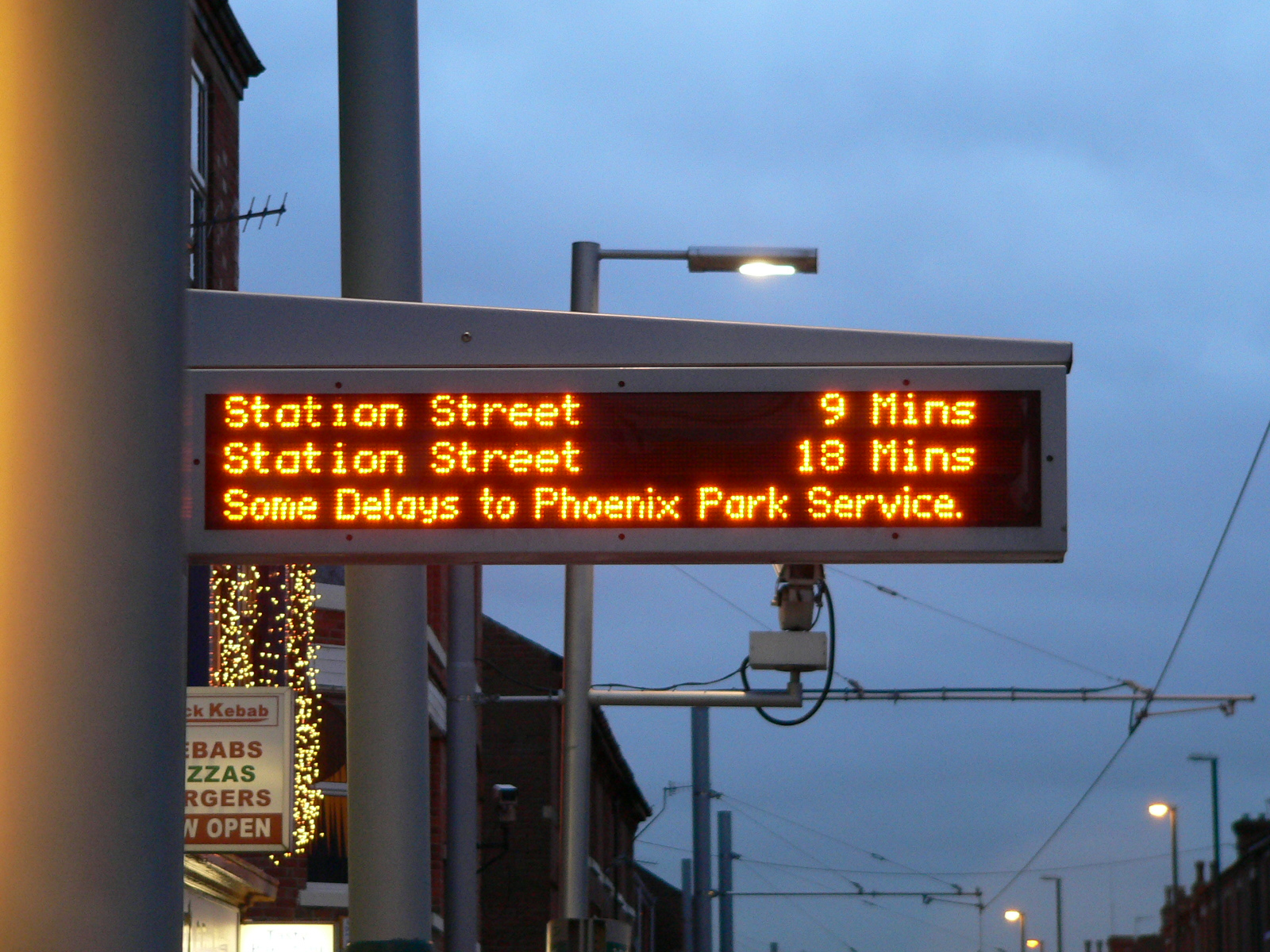 The next tram display at the Nottingham Express Transit (NET) tram stop on Radford Road, part of the route that is served by southbound trams only. The first two lines cycle through the next four trams, while the bottomline alternates the current time and service messages such as the one shown.